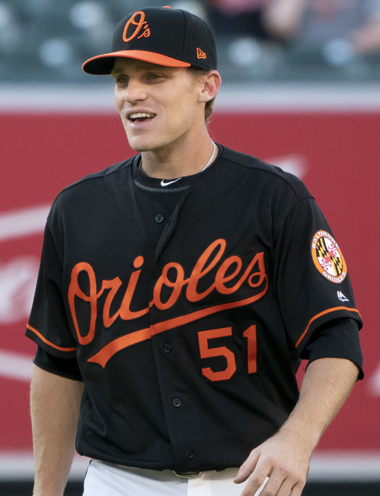 Marlins at Orioles 6/15/18